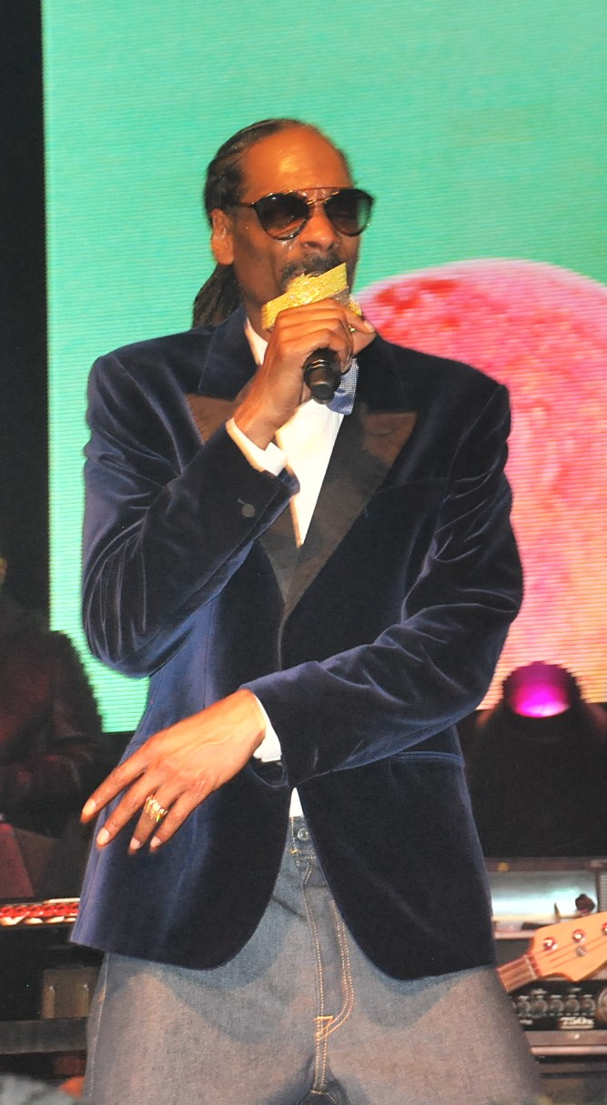 Levi's® x Snoop Dogg Pre-Grammy Party on February 5th at the Hollywood Palladium. Snoop Dogg